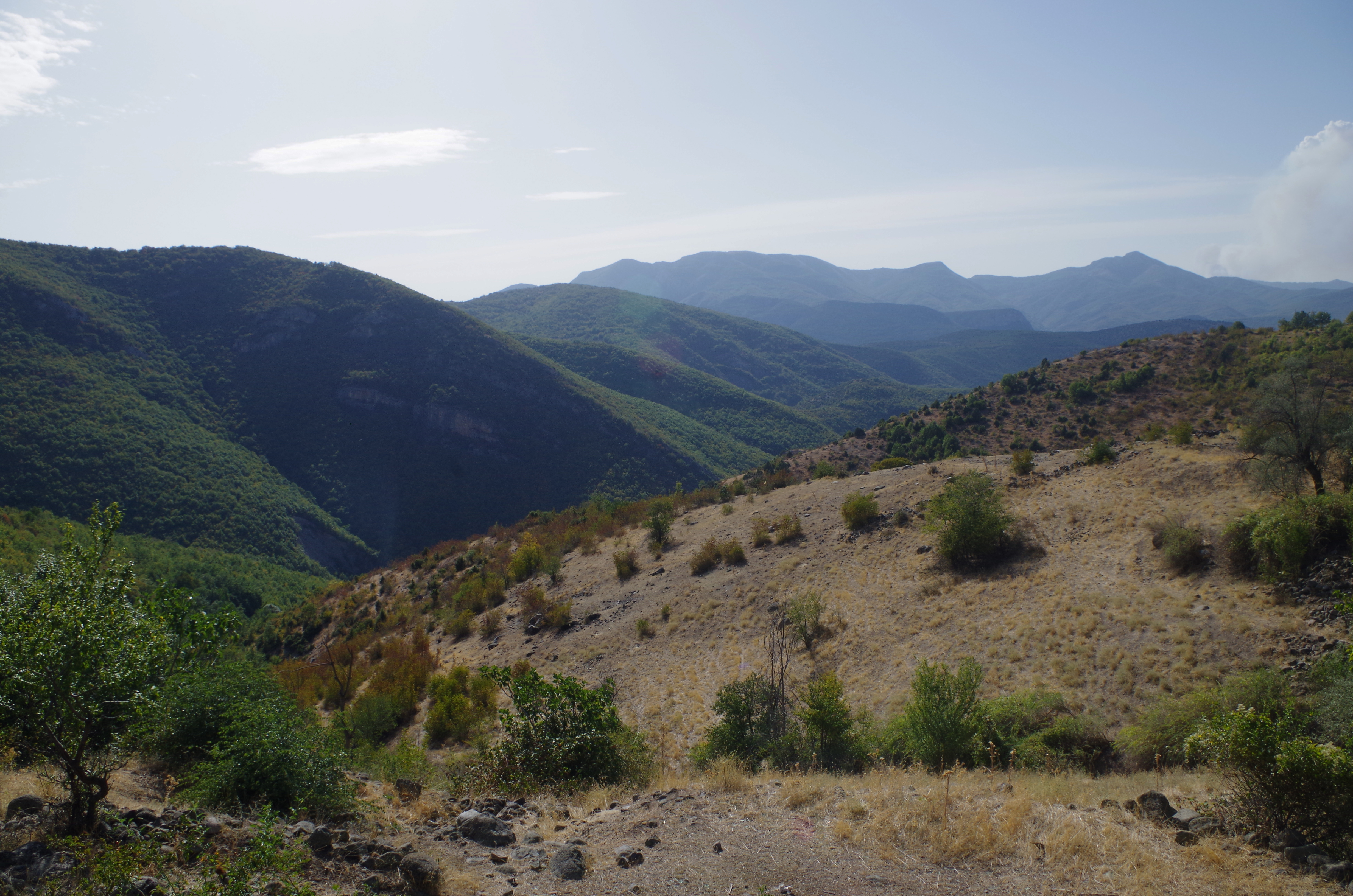 Landscape of the countryside surrounding the village of Garnikovo